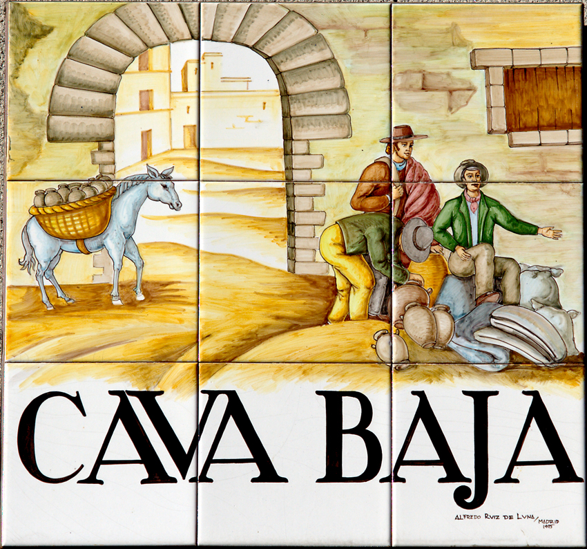 Sign of Calle de la Cava Baja (street, Centro district) in Madrid (Spain).